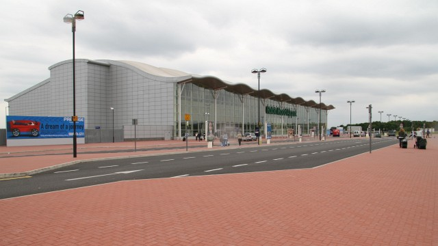 Robin Hood Airport (3 of 7) 449834 Previous -- -- Next 449876 Airport terminal building. See also this photograph by Wendy North, 915175. For an explanation of the airport name, see this link (once loaded, search the page for the text "Hunting out the remains of Robin Hood")